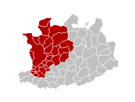 Location of Arrondissement Antwerpen in Belgium.